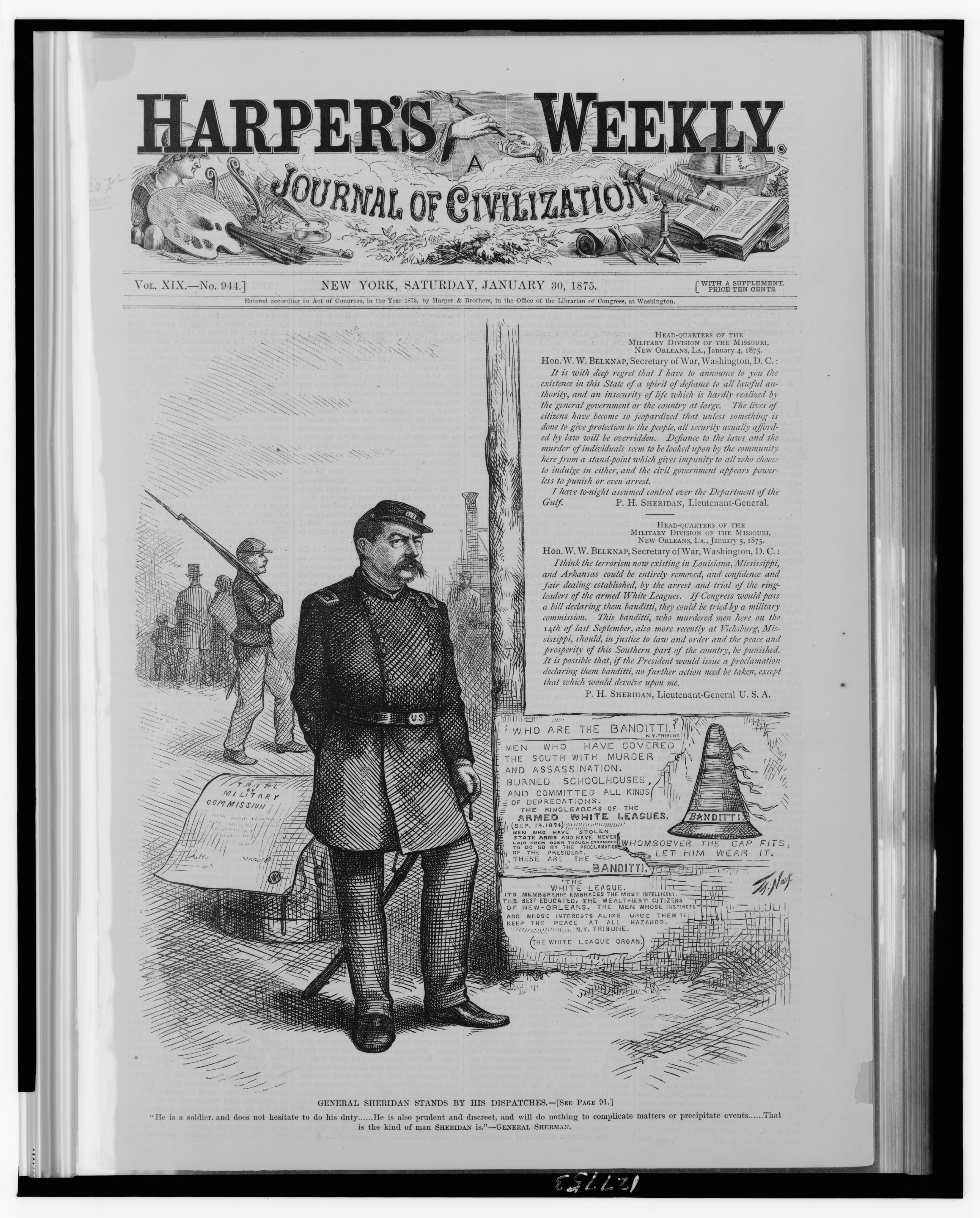 General Philip Sheridan, full-length portrait, standing, facing right, next to copies of his letters describing actions of "armed White League" in Louisiana, Mississippi, and Arkansas, against African American voting rights. Illus. in: Harper's weekly, v. 19, no. 944 (1875 Jan. 30), p. 89.